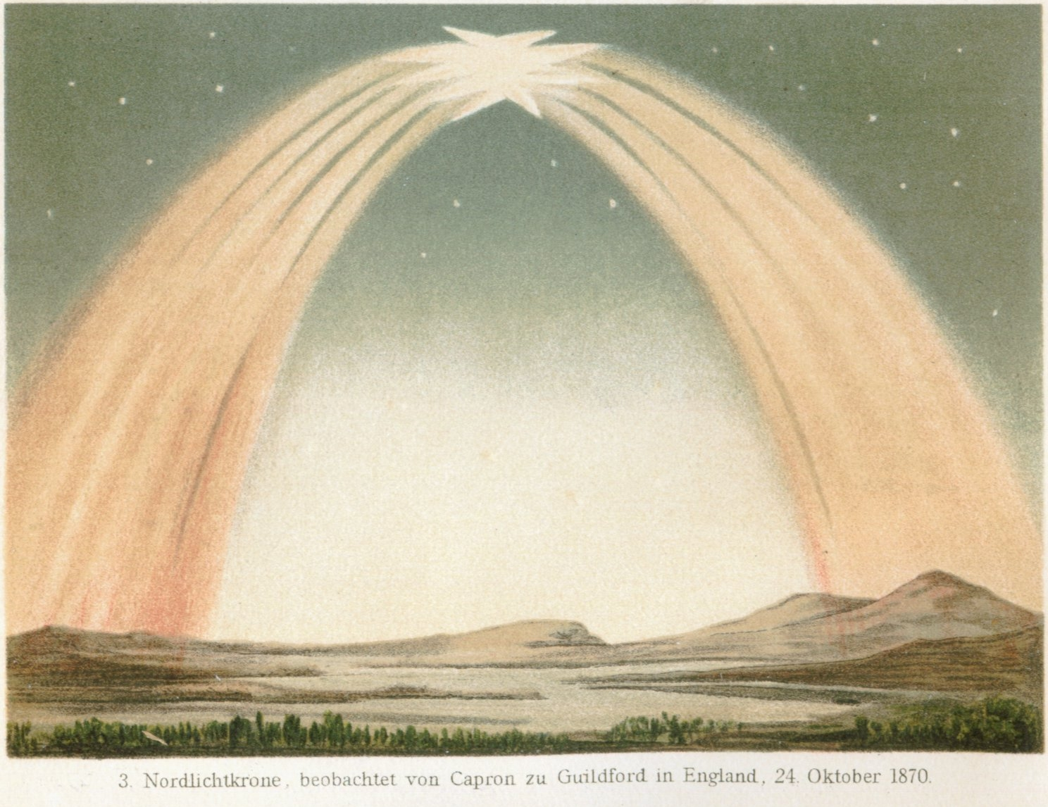 Chromolithograph with image of northern lights arch